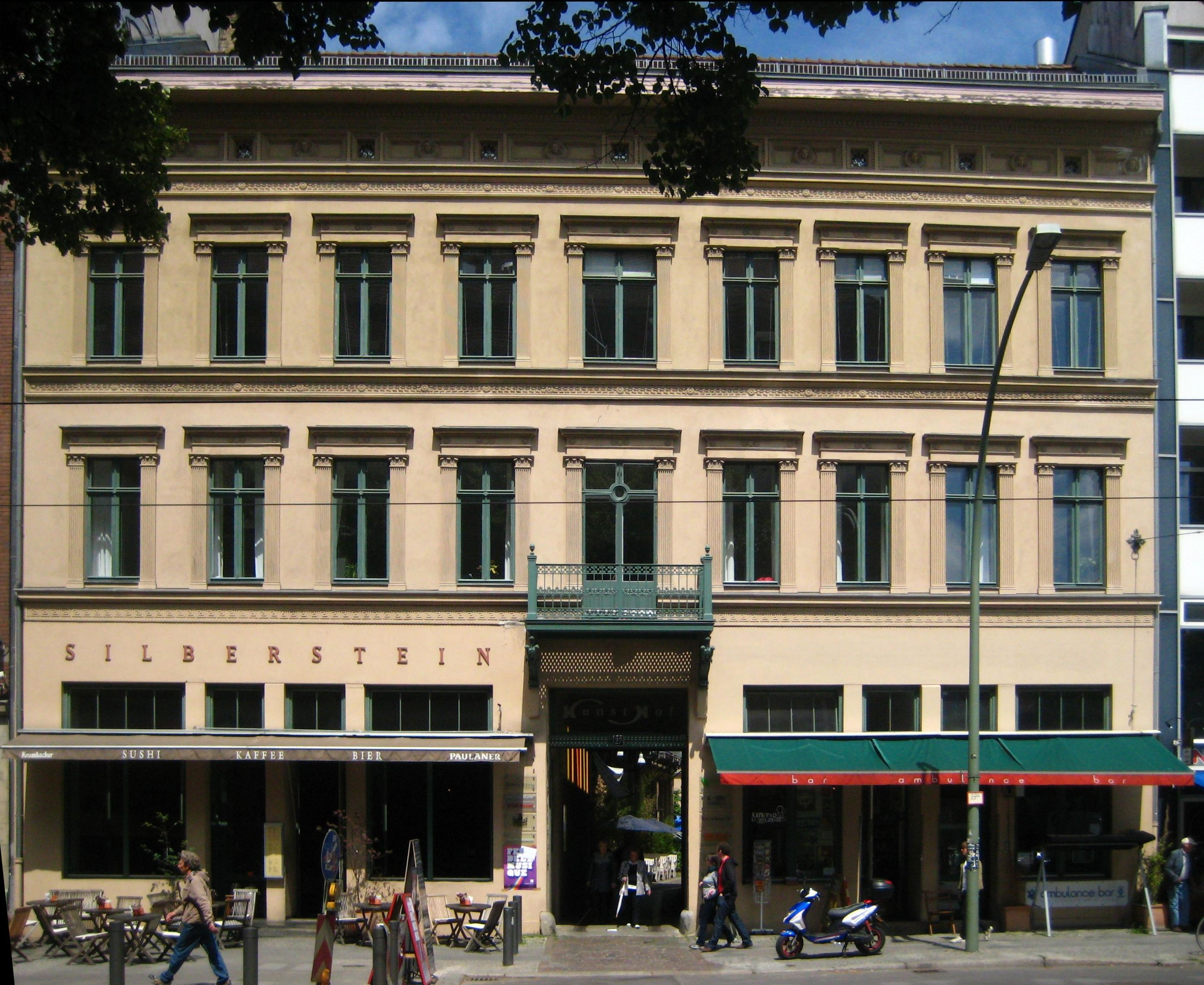 Front building of the "Kunsthof" ("Art Yard") at Oranienburger Straße 27 in Berlin-Mitte. The large complex with a front tenement building and commercial buildings around the yard was constructed 1840 to 1866. It is an almost unique example of a building in Berlin-Mitte where the original architectural design of late Classicism has been preserved both at the outside and at the inside. Restaurants and art galleries are now located in the complex. It is landmarked.